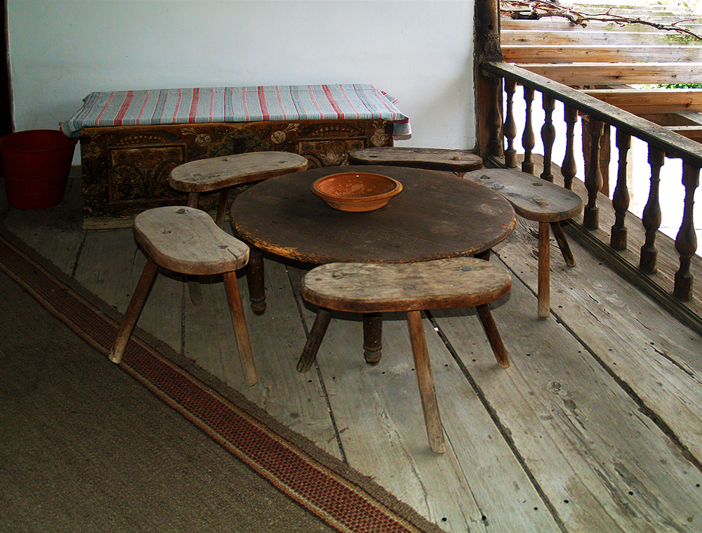 Old table and chairs from the 19-20th century Sliven lifestyle museum